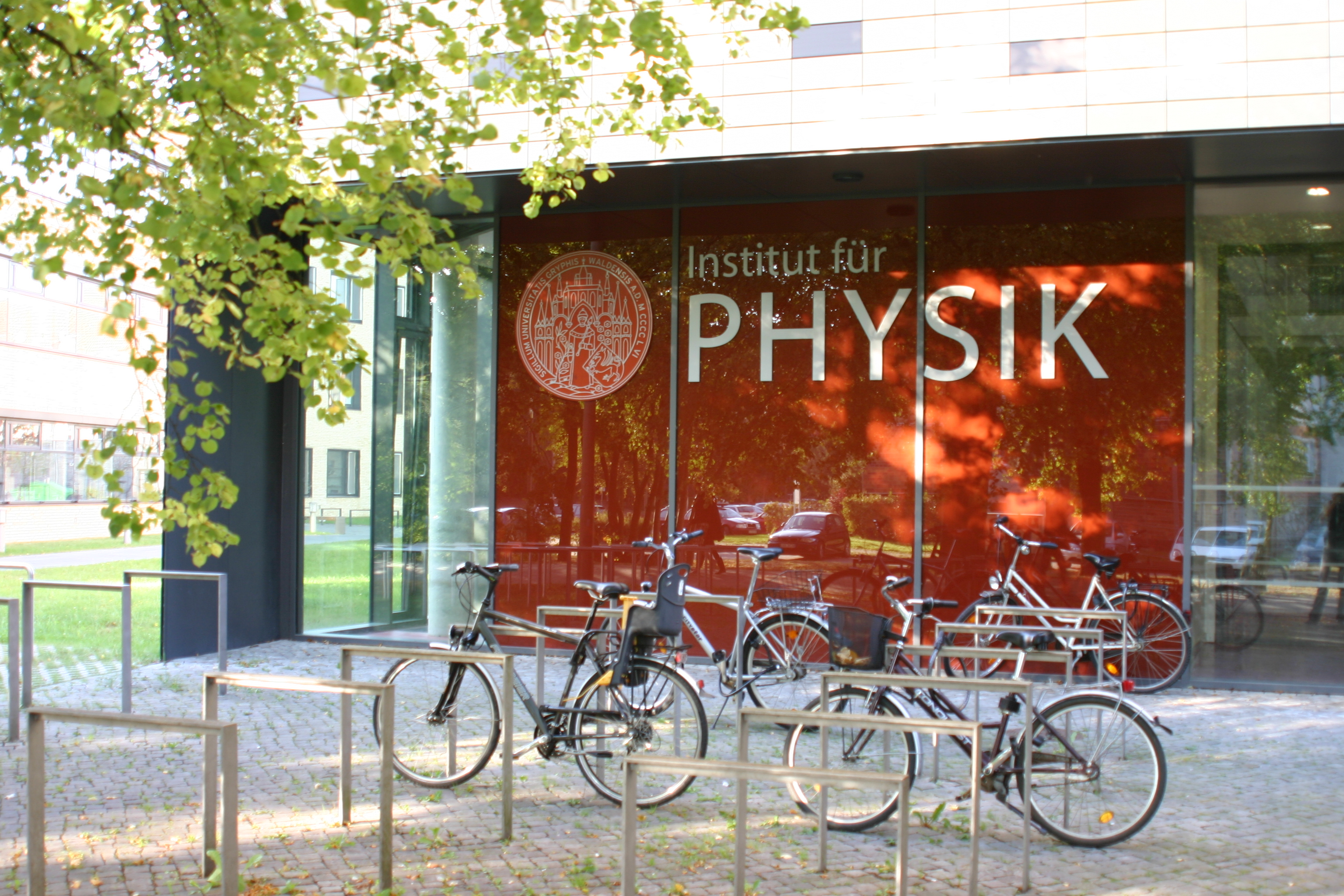 Physics Department of the University of Greifswald